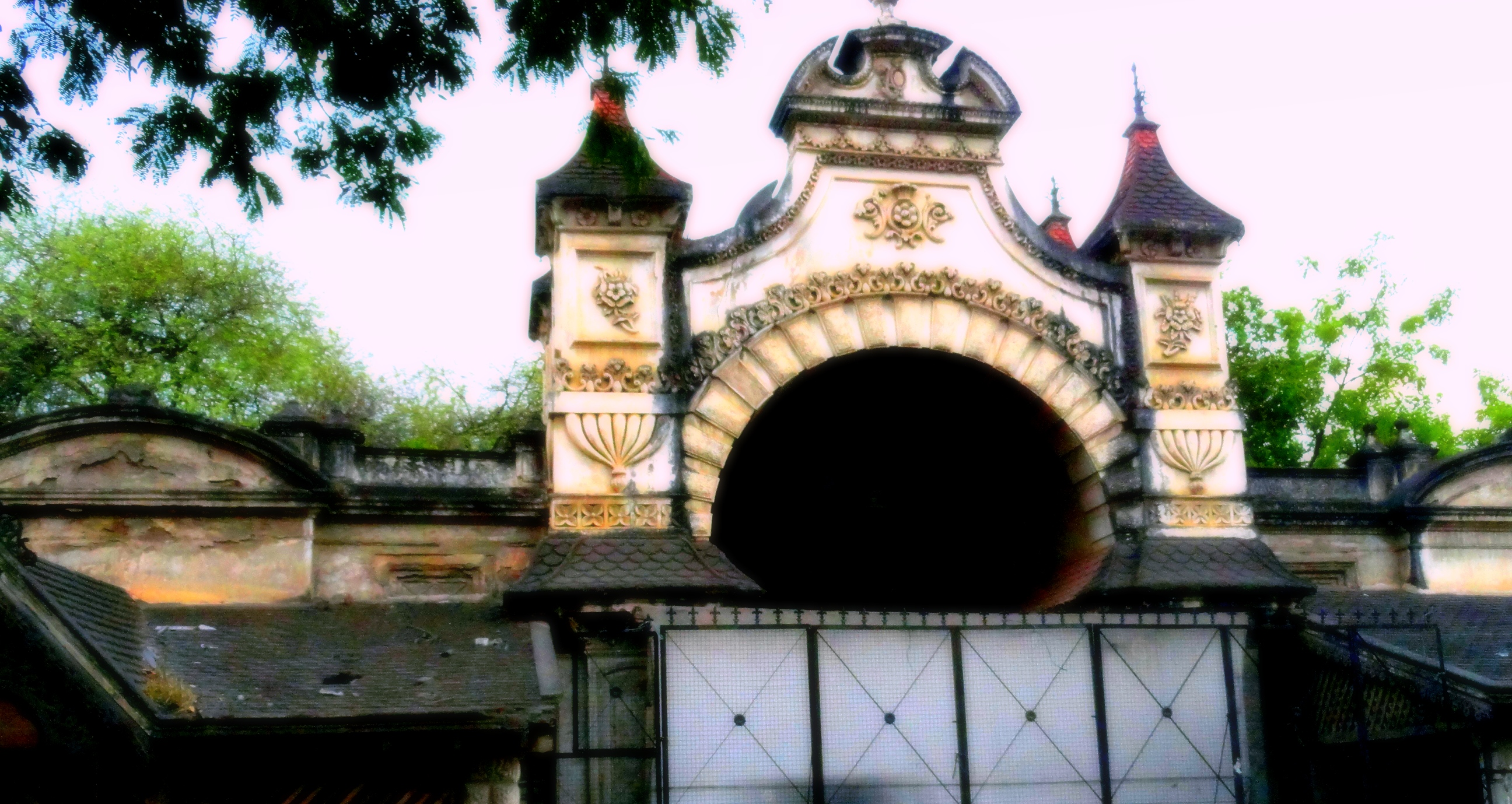 mahadwaaram of Kings Palace. kingkoti, Hyderabad